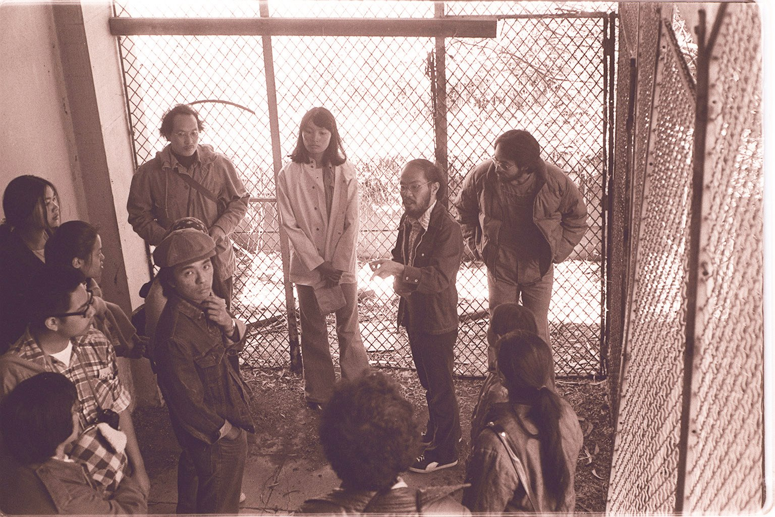 Angel Island Barracks Tour for members of Asian American Theater Workshop from San Francisco (including actor/activist Frank Abe, (center wearing cap). Christopher Chow from the Angel Island Immigration Station Historical Advisory Committee (AIISHAC) leads the tour. At that time, the committee was the only group authorized to lead such tours. In 1976, the committee persuaded the California Legislature to appropriate $250,000 to restore and preserve the detention barracks as a state monument. 1975 photo by Nancy Wong.